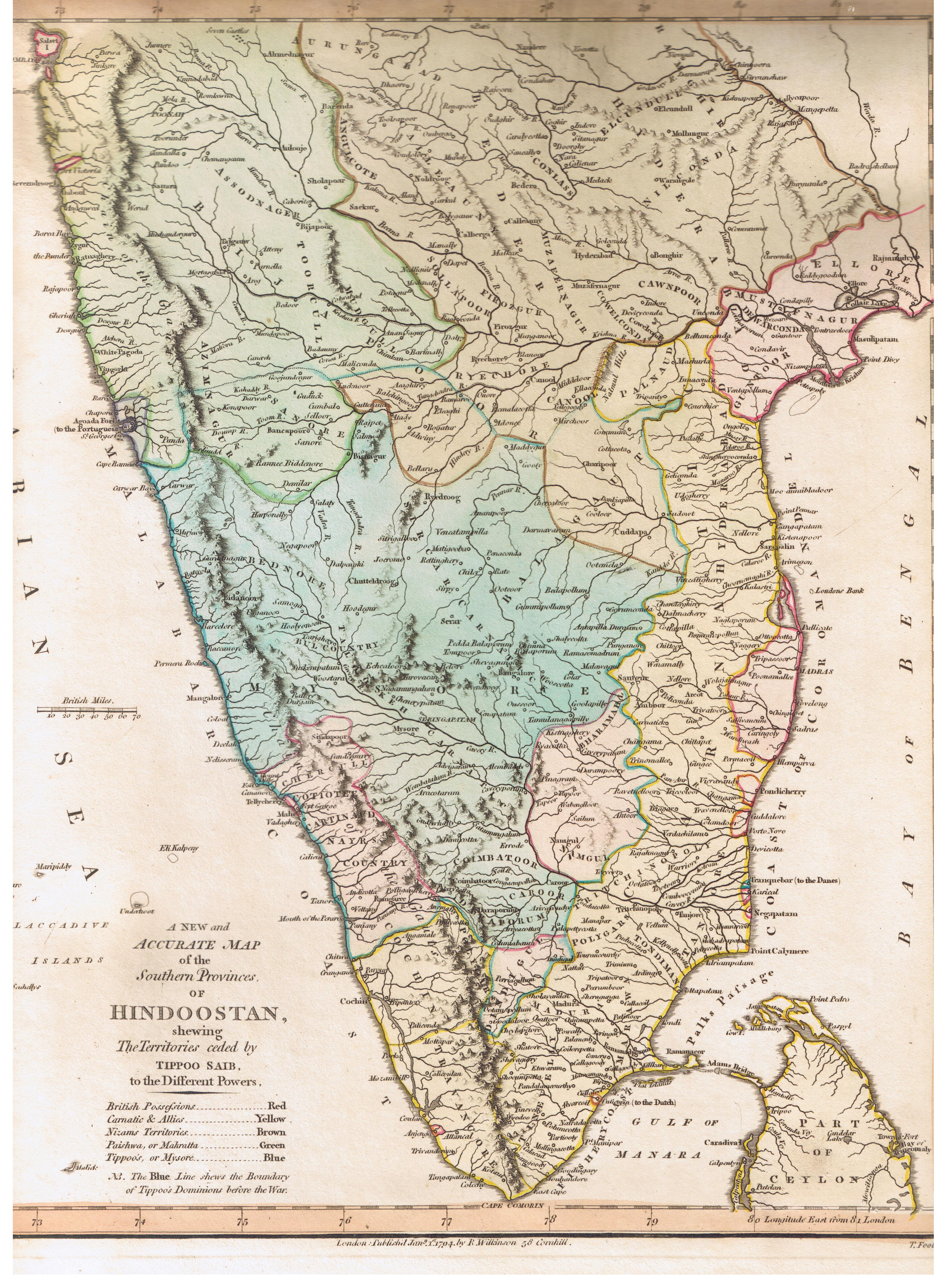 This map describes the political state of the Indian subcontinent after the Third Anglo-Mysore War. Map is captioned as follows: A New and Accurate Map of the Southern Provinces of Hindoostan, shewing The Territories ceded by TIPOO SAHIB to the Different Powers